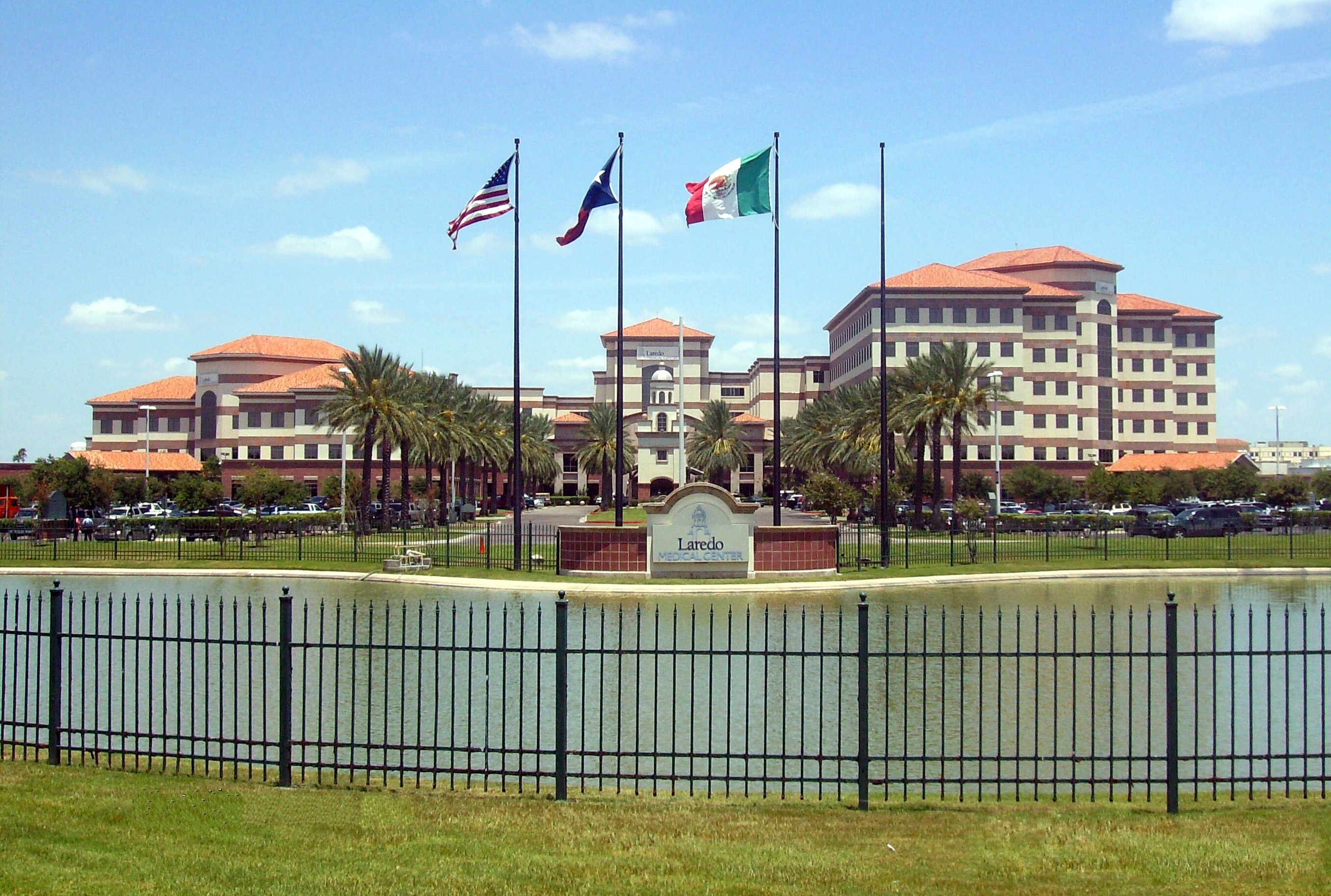 Laredo Medical Center (Spanish Architecture)